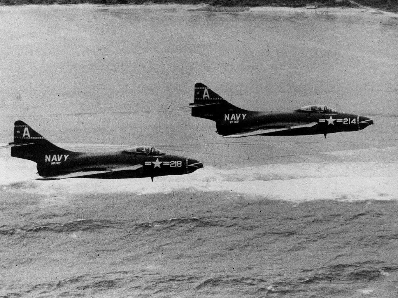 Two U.S. Navy Grumman F9F-6 Cougars of Fighter Squadron 142 (VF-142) "Fighting Falcons" in a low-level flight over the coast of Guam, in January 1956. VF-142 was assigned to Carrier Air Group 14 (CVG-14) aboard the aircraft carrier USS Boxer (CVA-21) for a deployment to the Western Pacific from 3 June 1955 to 3 February 1956. At the end of this deployment, Boxer was redesignated to an anti-submarine carrier (CVS) on 1 February 1956.